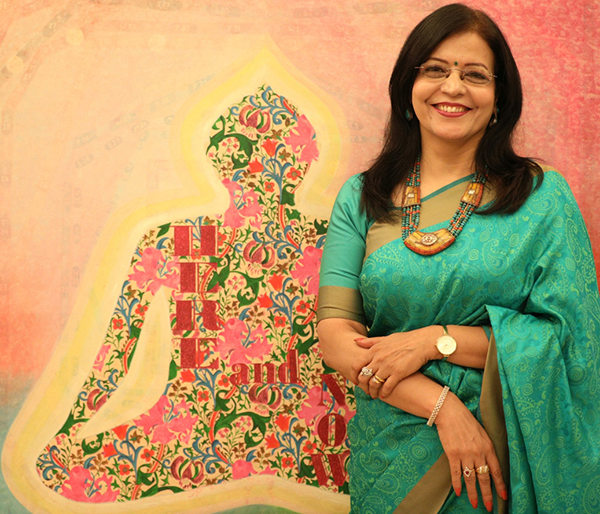 Pratiksha1